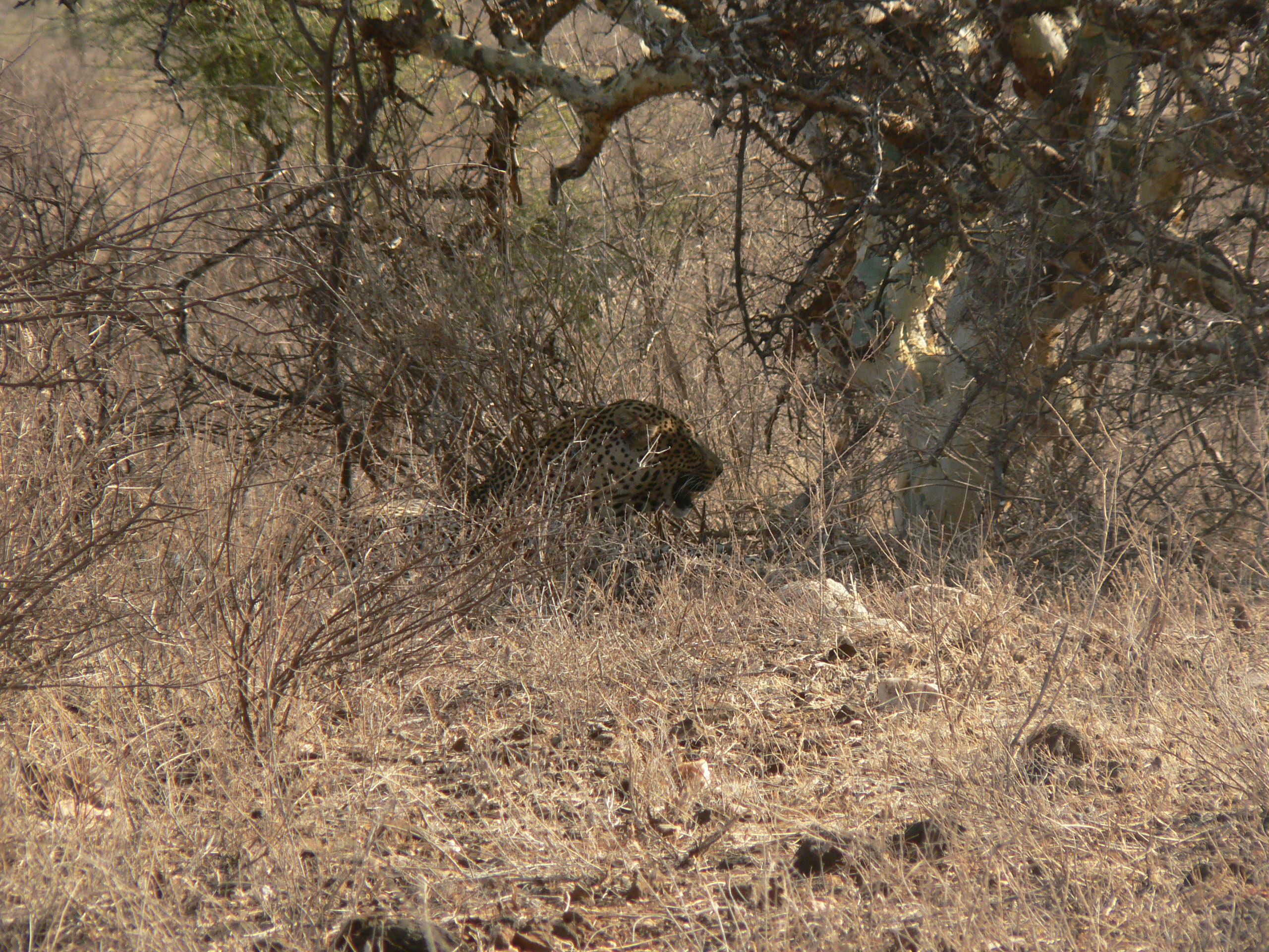 The leopard really doesn't like to be out in the open...